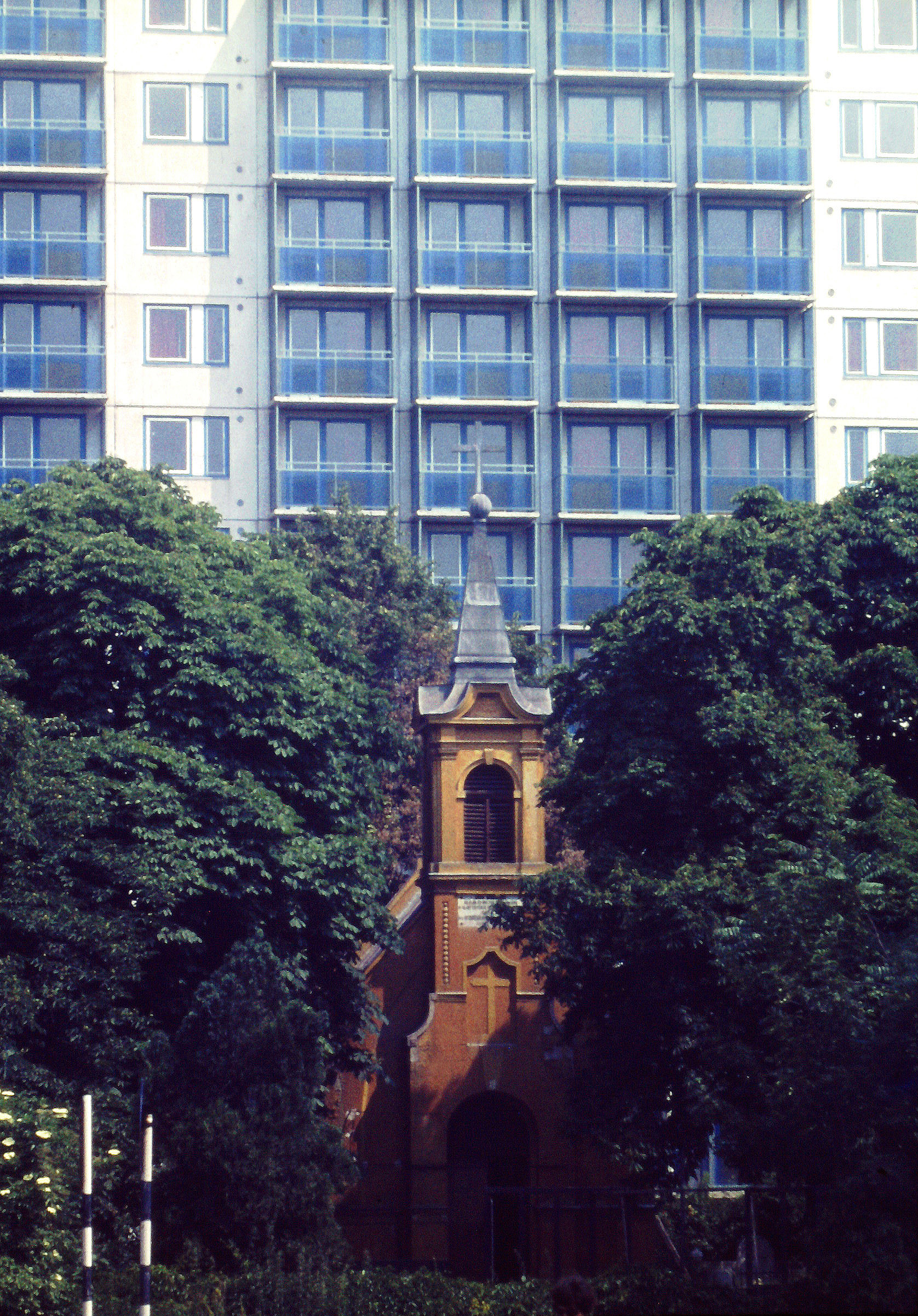 Chapel of Mindszent Cemetery in 1977, Miskolc, Hungary